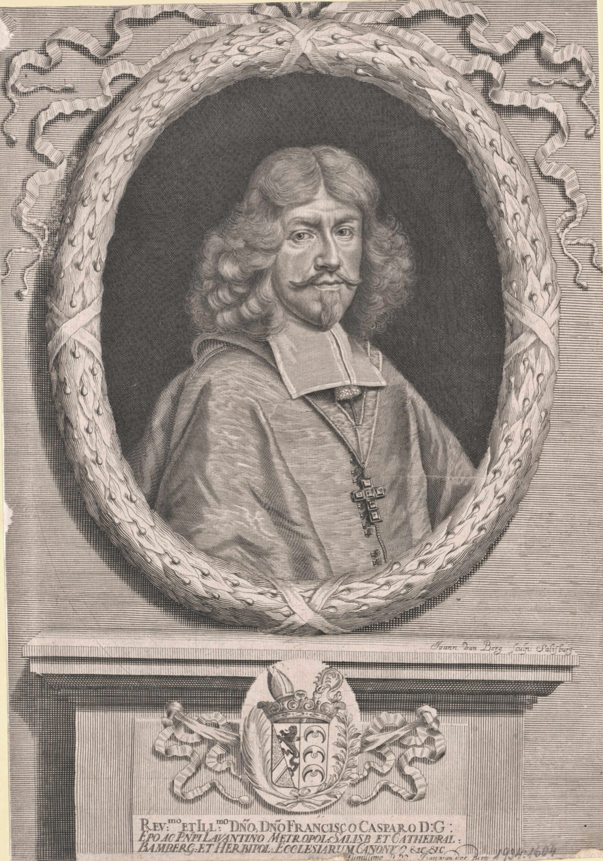 Franz Kaspar von Stadion (1637-1704) Fürstbischof von Lavant